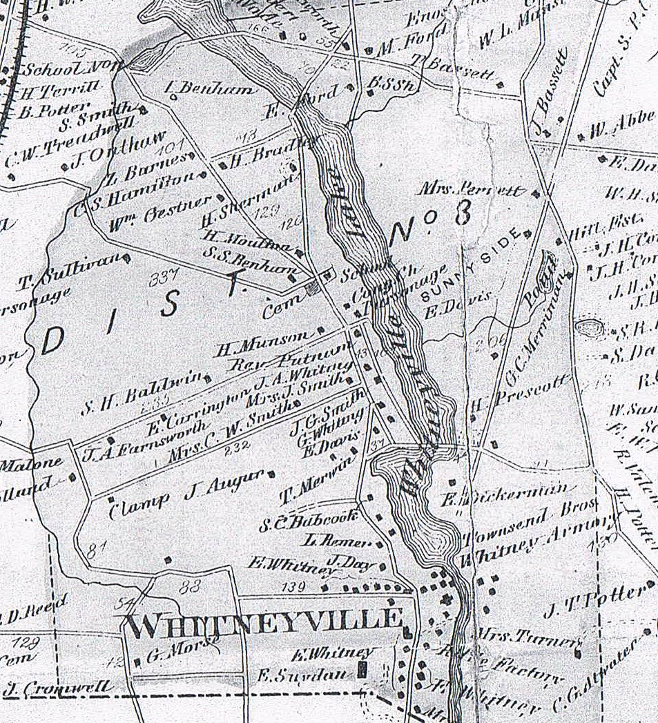 Detail of the Whitneyville area of the map of Hamden in Atas of New Haven County, p. 35 by F. W. Beers, 1868.